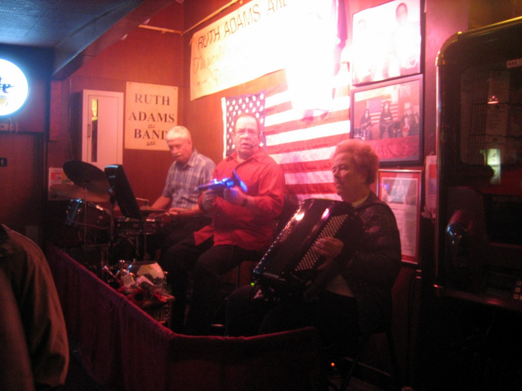 The Polka Room in Nye's Polonaise